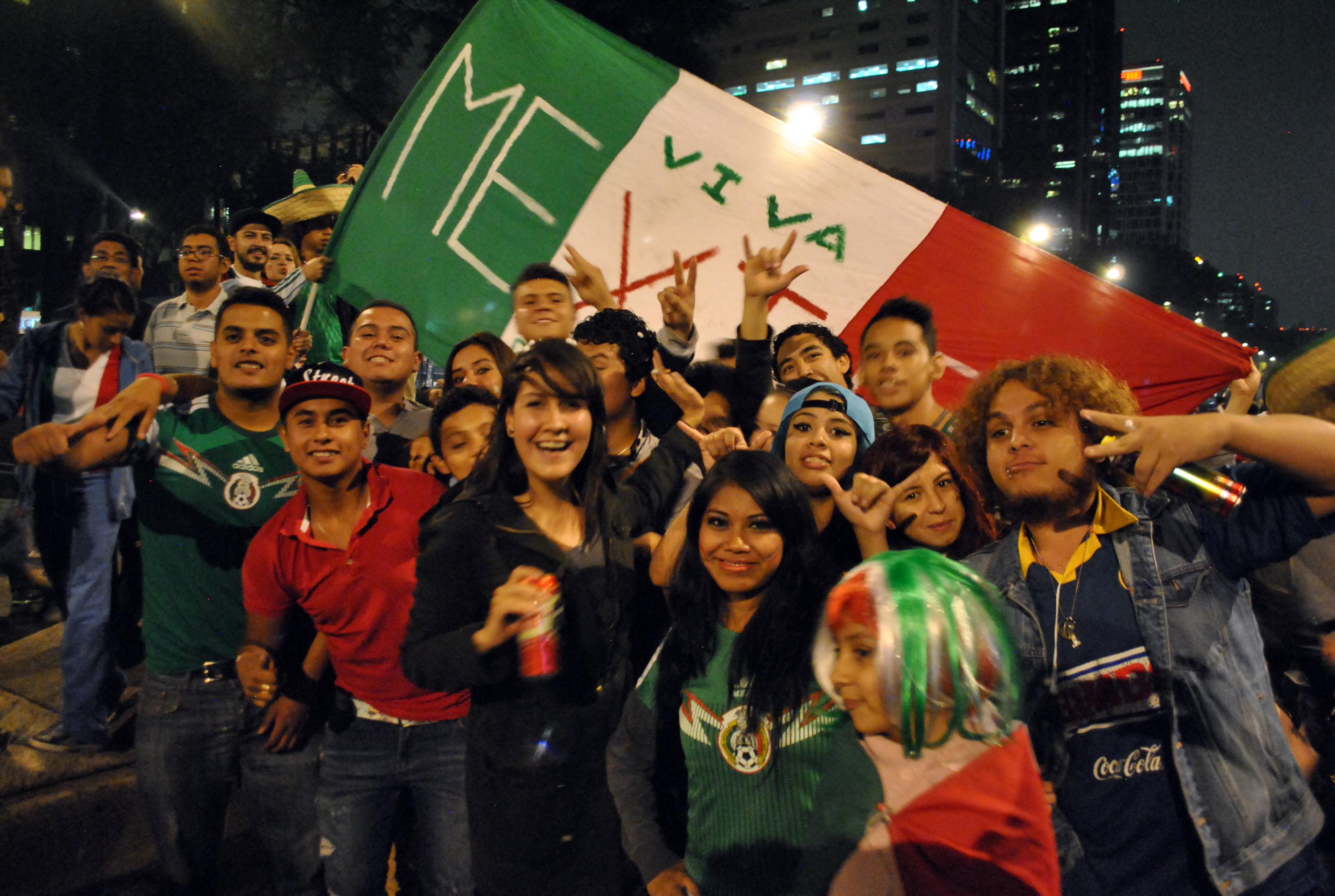 Celebrations after Mexico's victory against Croatia in the 2014 FIFA World Cup. Angel de la Independencia, Mexico City